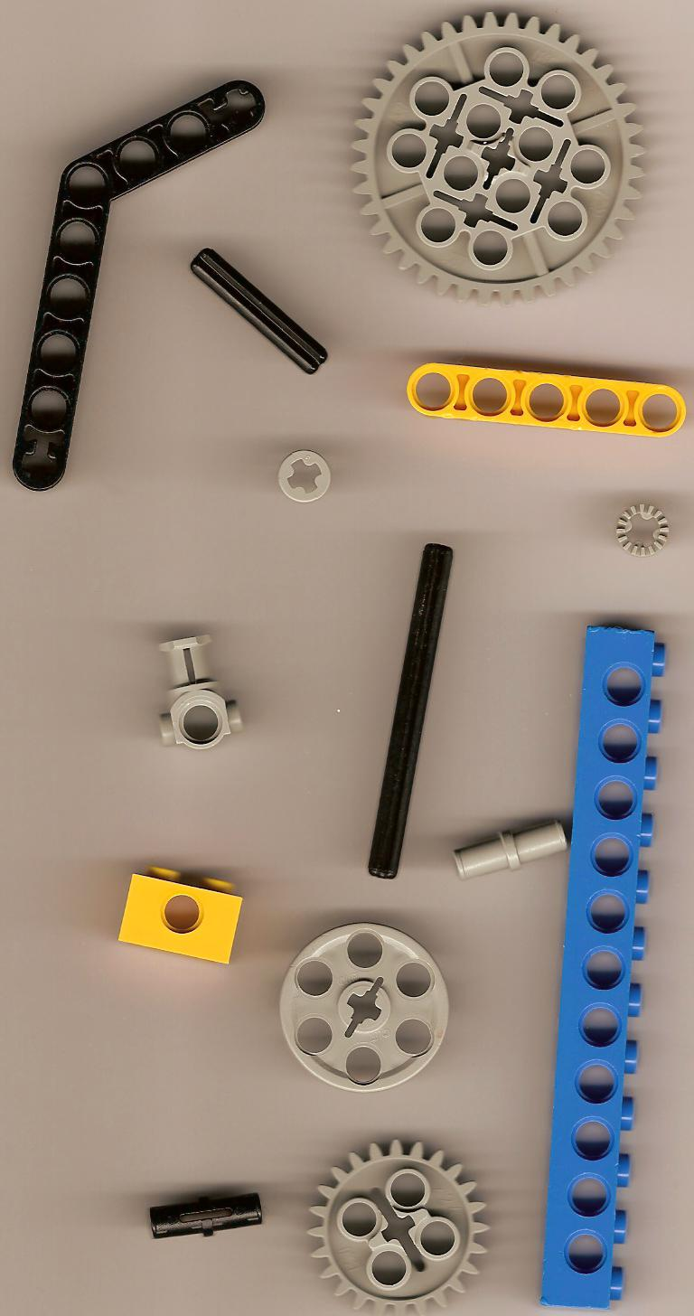 Assortment of lego technic pieces. I, 879(CoDe), made the image myself. It was created on Sunday, July 2nd, 2006.